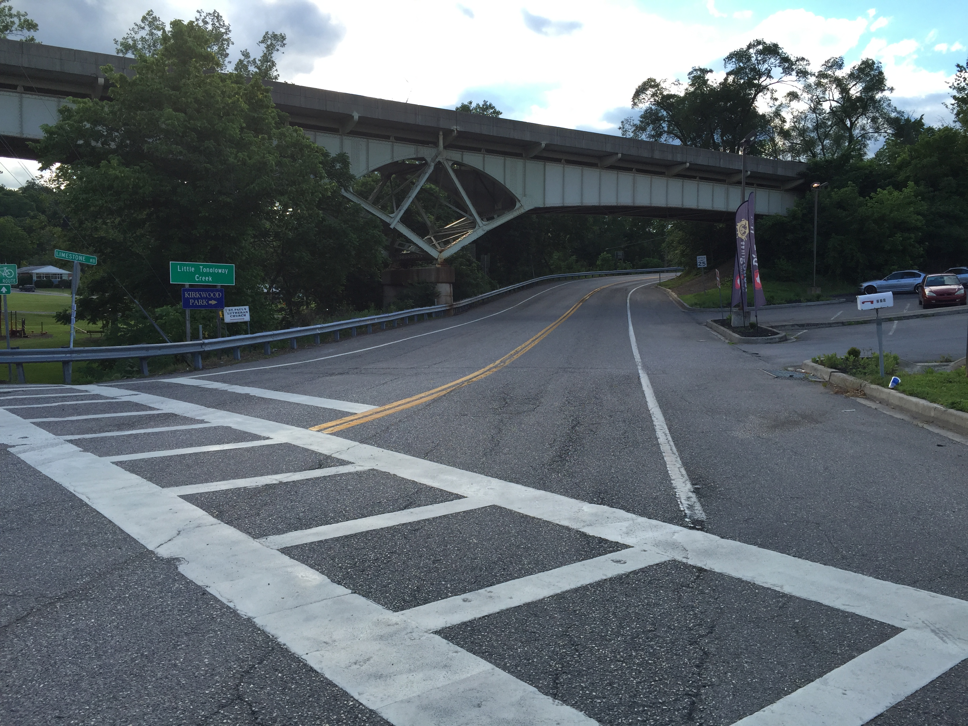 View north along Maryland State Route 894 (Limestone Road) at Maryland State Route 144 (Main Street), just south of U.S. Route 522 (Warfordsburg Road) in Hancock, Washington County, Maryland